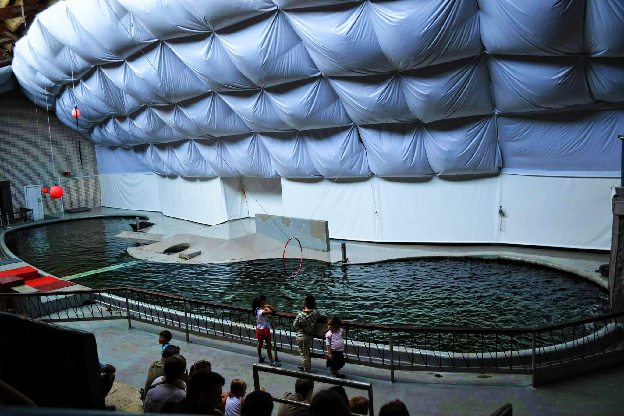 Dolphinarium at ZOO Antwerp